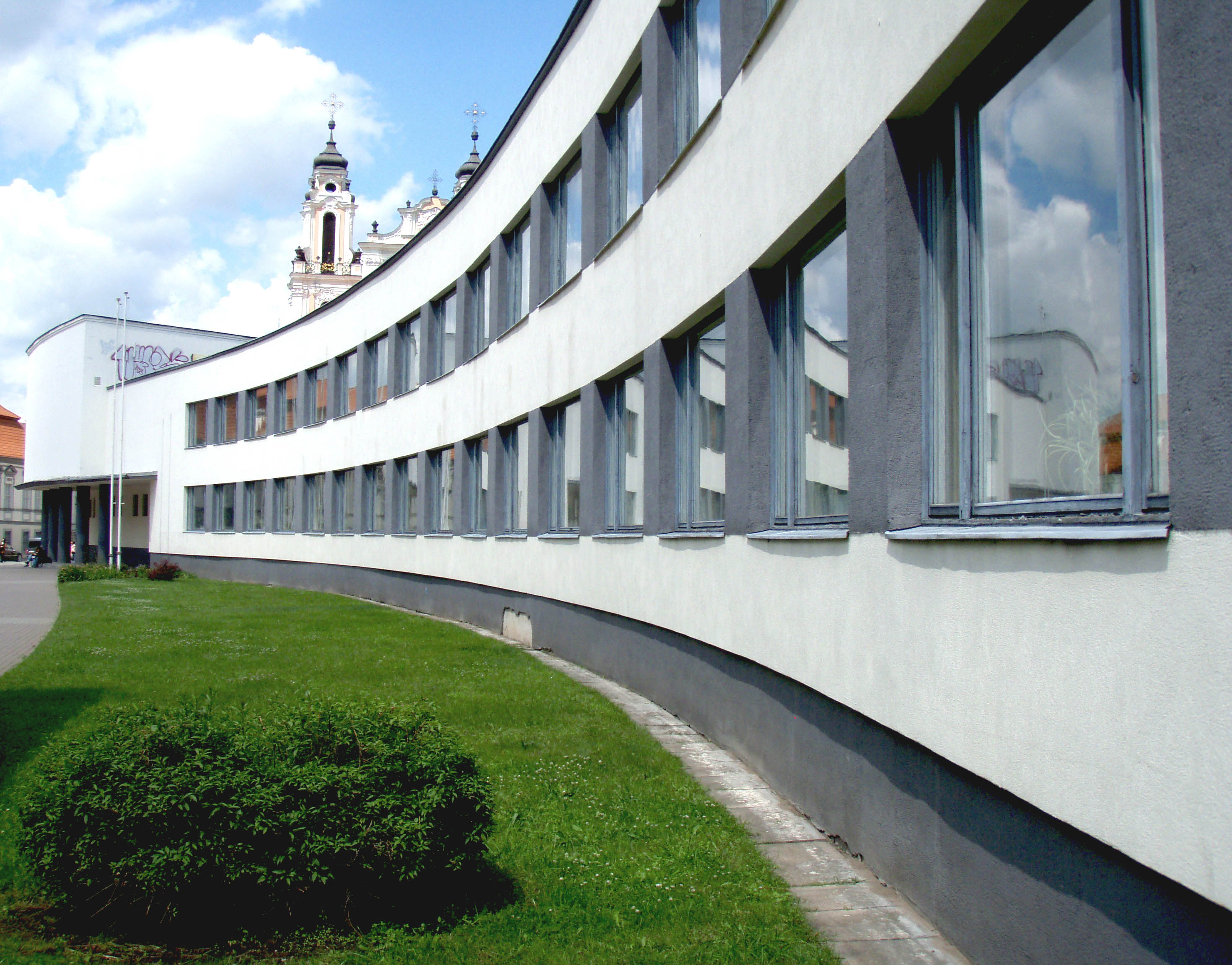 Vilnius Salomėja Nėris gymnasium